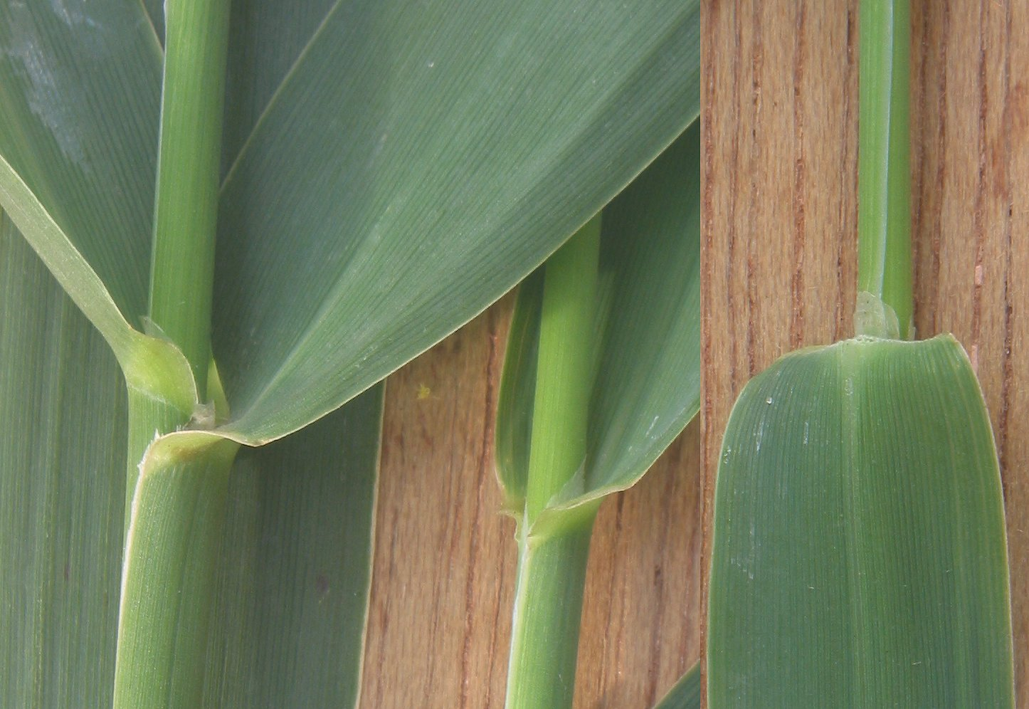 (nl: Rietgras tongetje) Phalaris arundinacea ligula